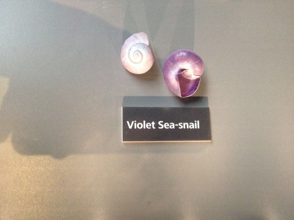 Image of Janthina Janthina, also known as the Violet Sea-Snail, in Manchester Museum